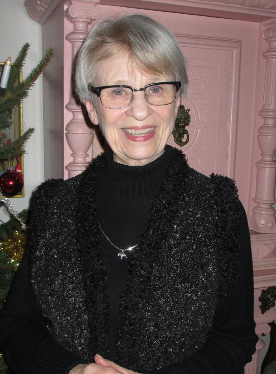 Swedish opera singer Busk Margit JonssonPlace: Pontén residence, Götgatan, Stockholm, Sweden